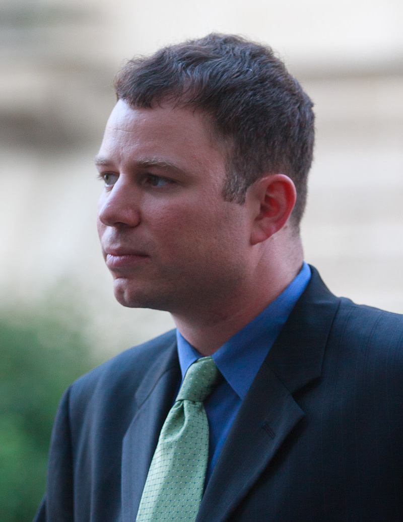 IP3 Award recipient Mike Masnick, CEO and Founder of Techdirt.